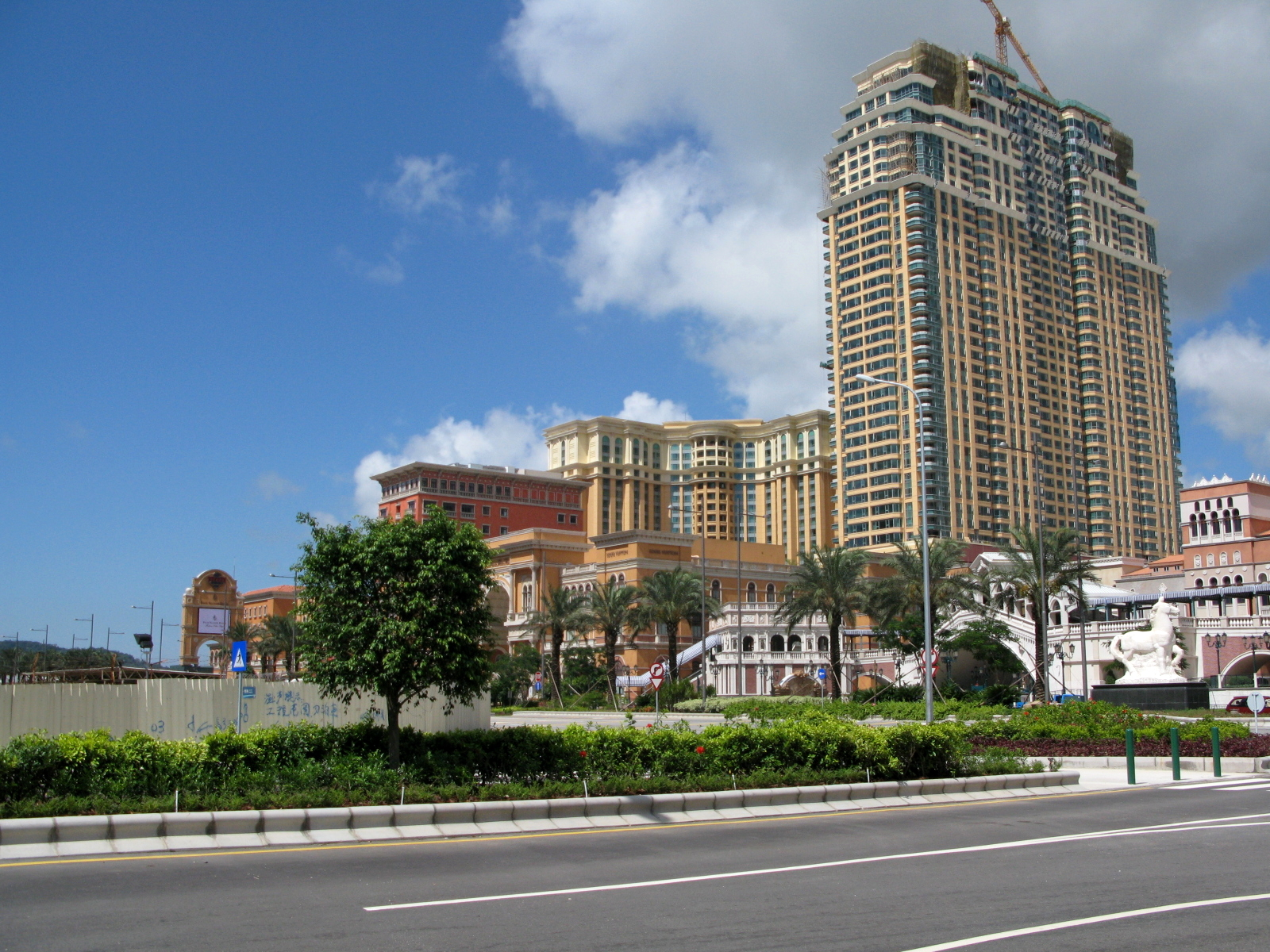 Four Seasons Hotel & Resort Macao 四季酒店 (澳門)